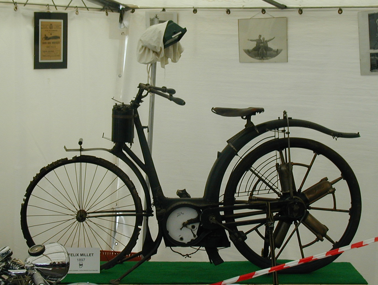 Félix Millet motorcycle from 1897.